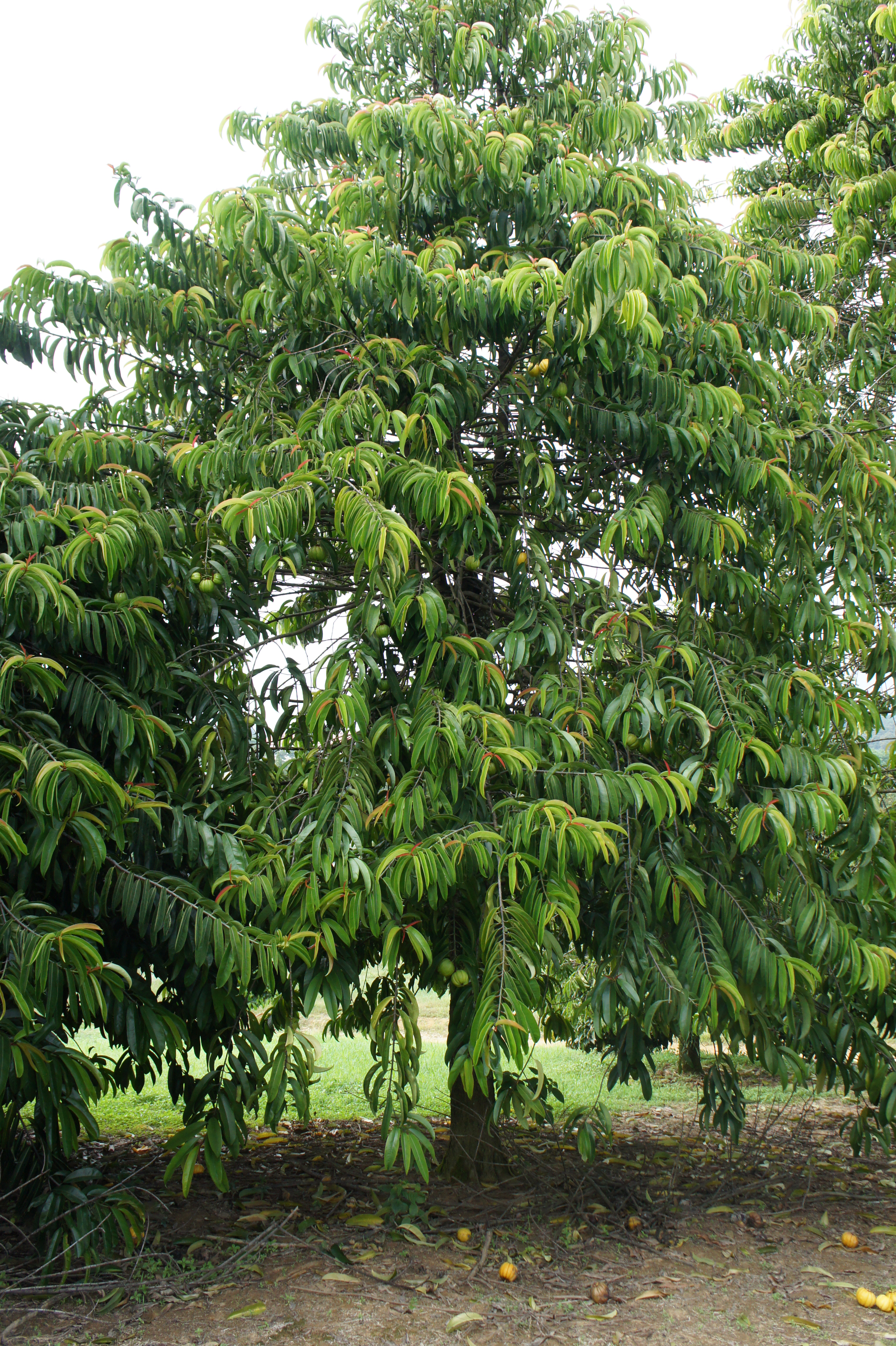 Tree of Garcinia atroviridis. Location: Serdang, Selangor, Malaysia